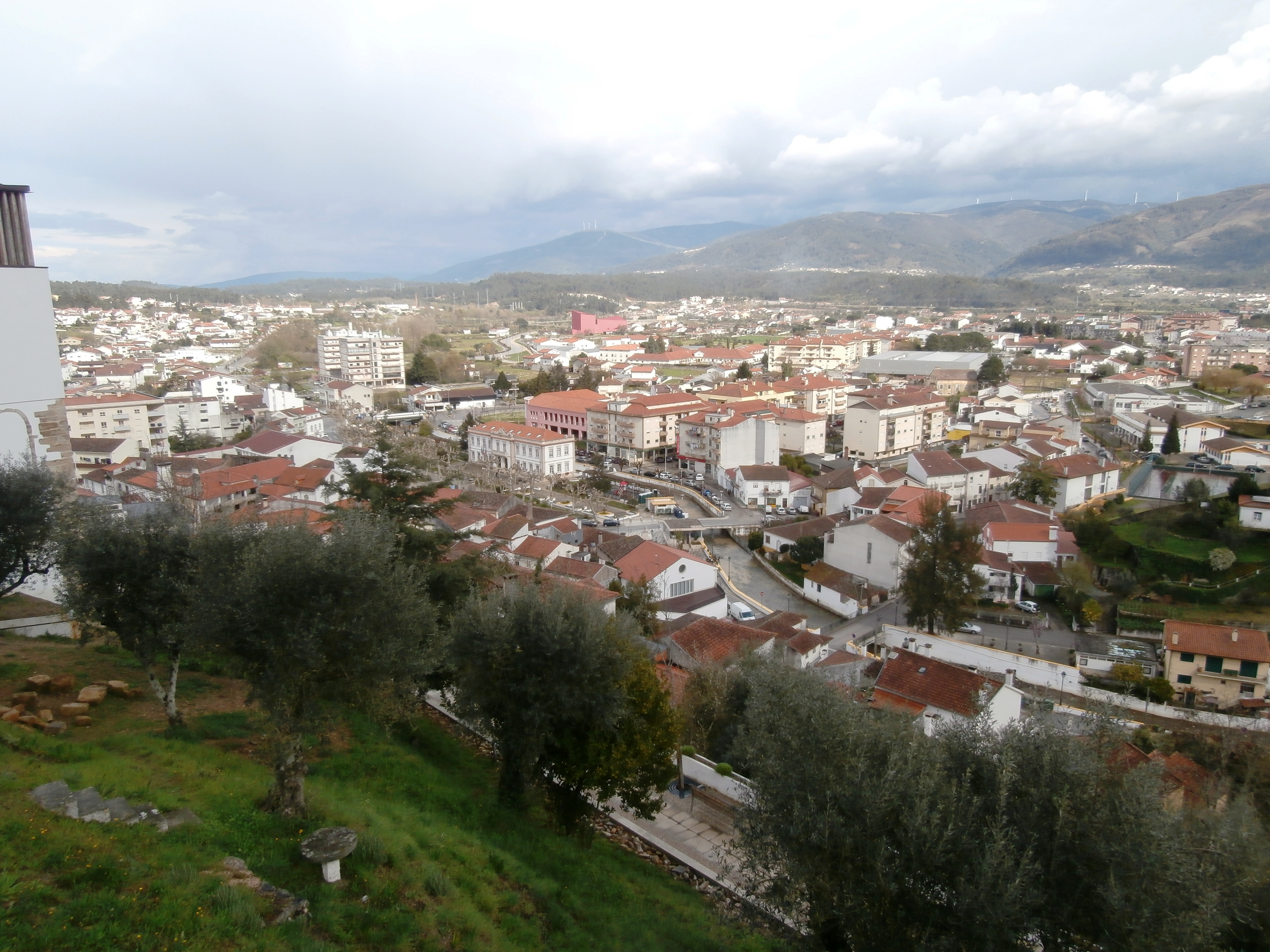 Miranda do Corvo vista do Calvário